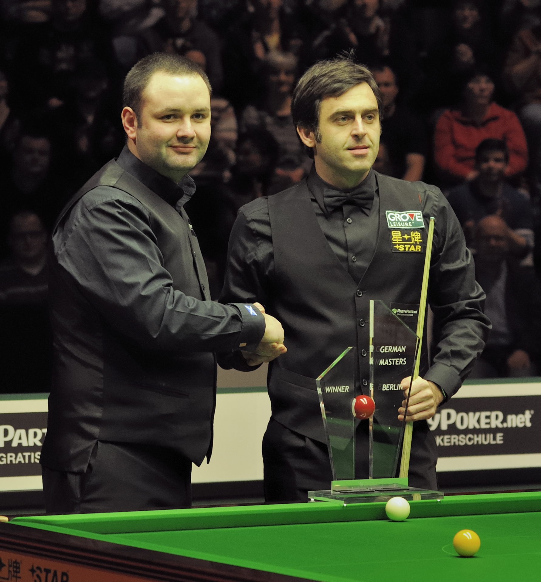 Picture taken in Berlin during the Snooker German Masters in 2011. Stephen Maguire and Ronnie O’Sullivan.